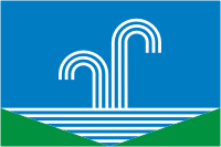 Bratkovskoe (Krasnodar krai), flag